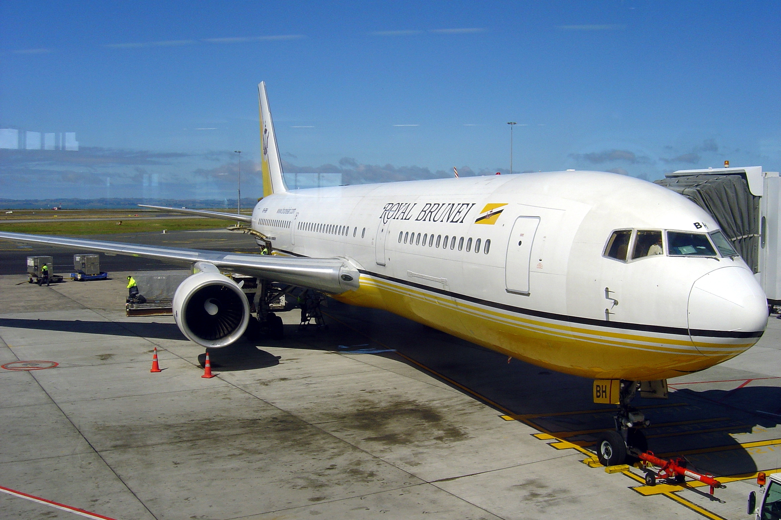 Royal Brunei Airlines Boeing 767 at Auckland International Airport.